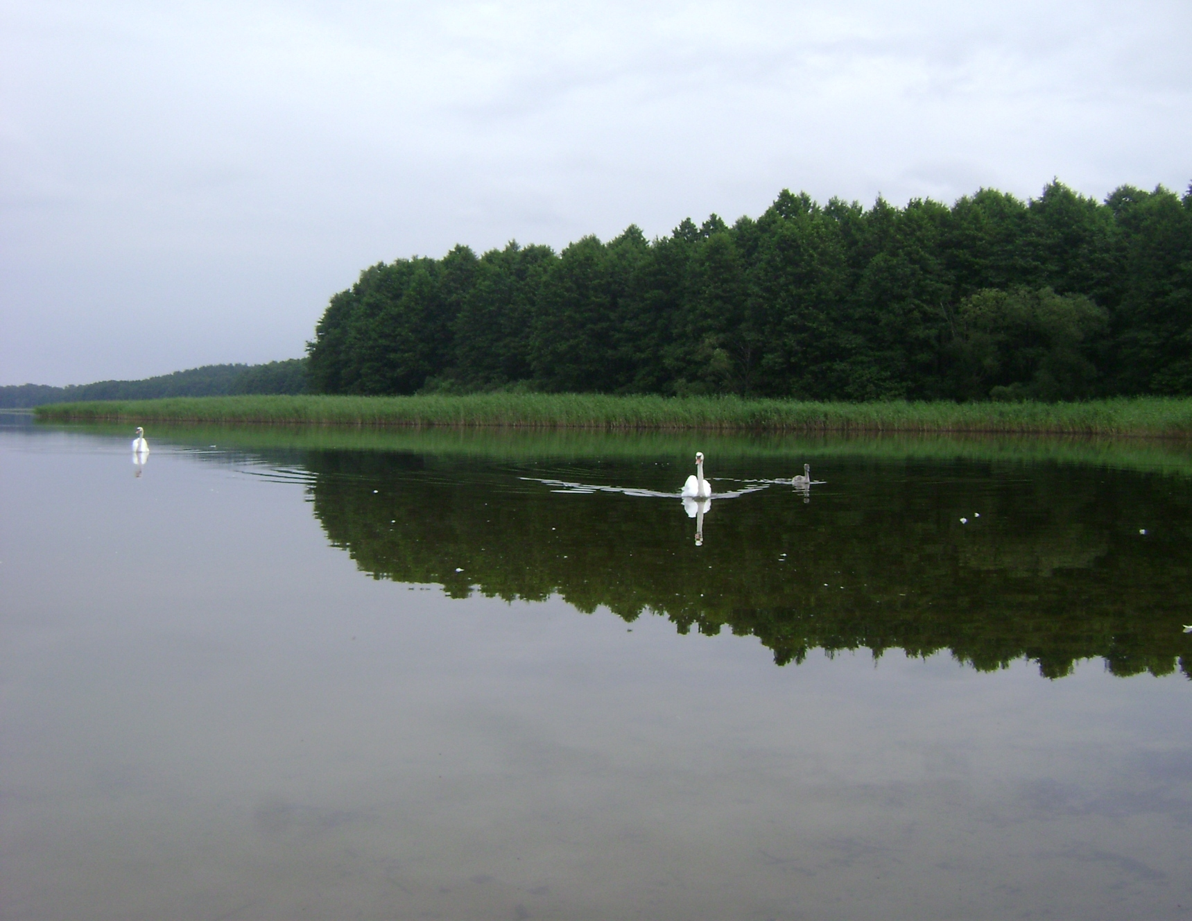 Poland. Gmina Jedwabno. Brajnickie Lake